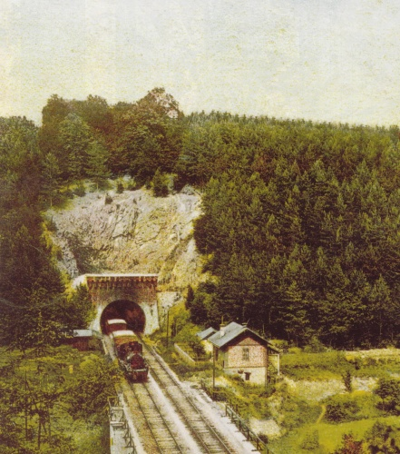 Czech railway Brno - Blansko